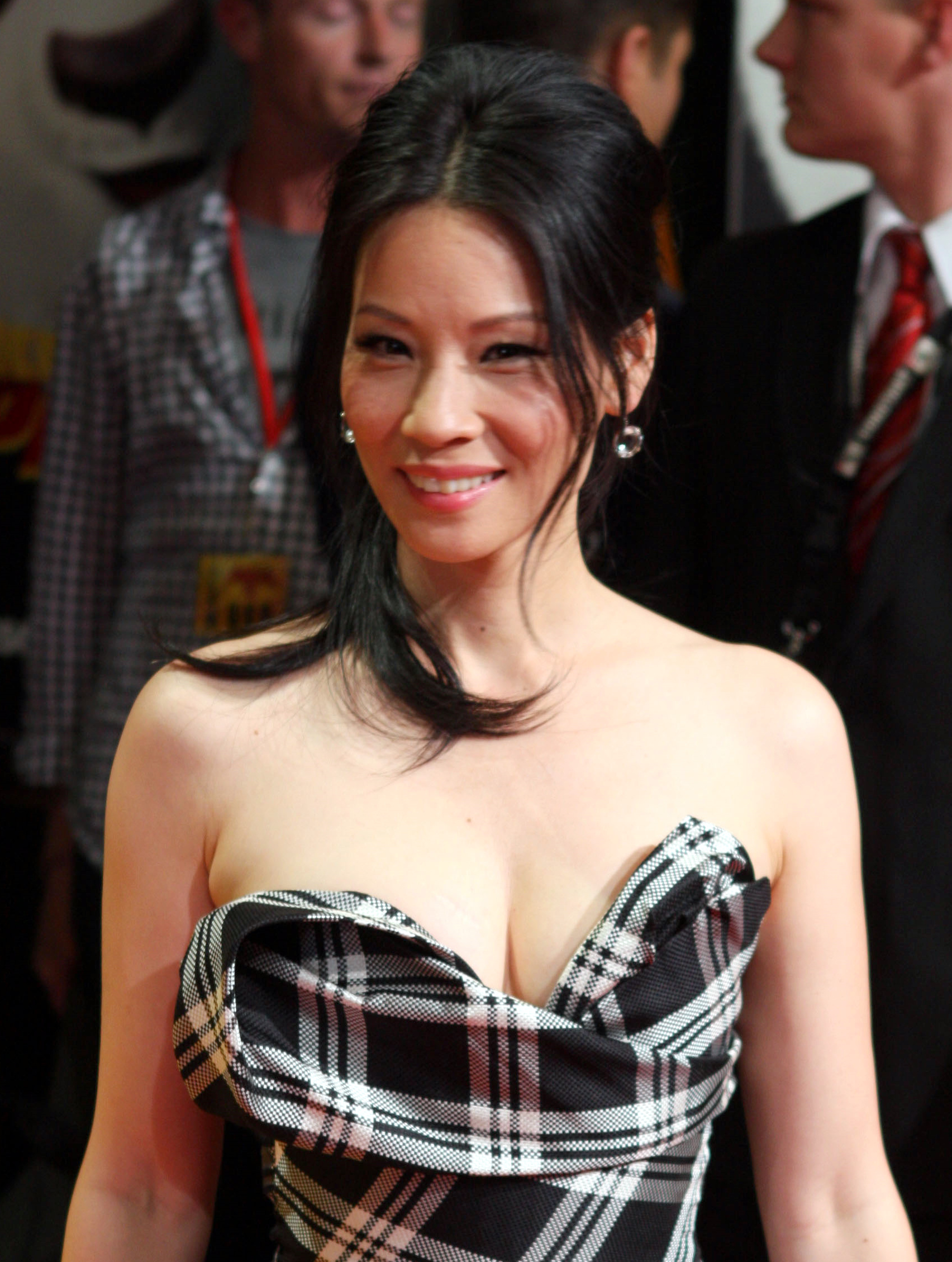 Lucy Liu at the Kung Fu Panda 2 Premiere 2011.